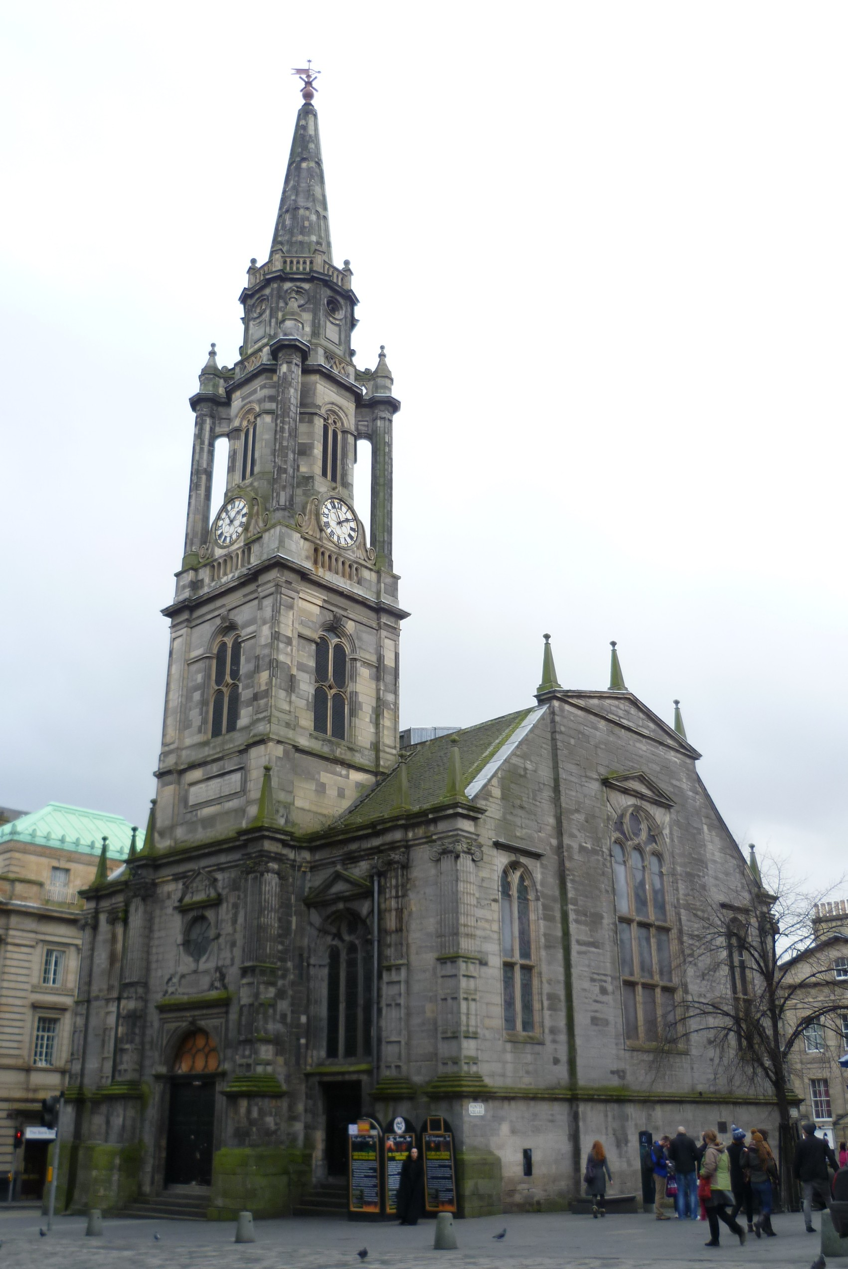 The building of the Tron Kirk was started in 1637 but not completed until 1678 because of delays caused by the Wars of the Covenant after 1638. It was Edinburgh's first presbyterian kirk, free of any taint of Catholicism attached to the history of Greyfriars and St. Giles. It takes its name from the 'tron', the weighing-machine that stood nearby to check that market traders were using genuine weights. The spire was rebuilt in 1828 after the original had been destroyed in a fire. 14th Oct, 1584. At this time, the common Council ordered the town to be divided into four parishes, to have each its proper church, according to the several quarters of the city, viz. St. Giles's Church for the Southwest quarter, Magdalen Chapel for the Southeast; the New Church [Tron] for the Northwest; and the Trinity Church for the Northeast quarter; the last whereof being ordered to be inclosed within the city wall, and a new gate to be made in the said wall at the foot of Halkerton's Wynd. -- Wm. Maitland, History of Edinburgh, 1753